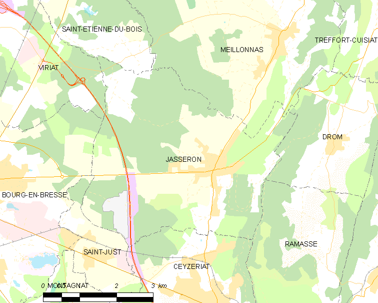 Map of French commune: Jasseron Map commune FR insee code 01195.png